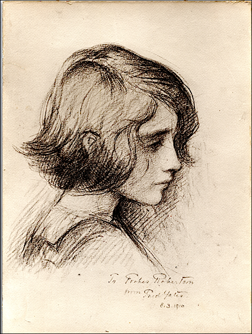 Frederic Yates conte crayon Sketch (1901) of Maxine Forbes-Robertson, age nine years.jpg